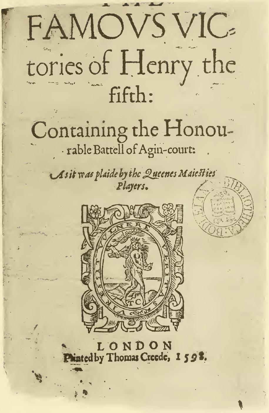 Title page of The famovs victories of Henry the Fifth Containing the Honourable Battell of Agin-Court